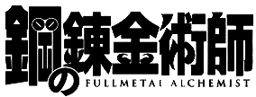 Fullmetal Alchemist: The Sacred Star of Milos (Hagane no Renkinjutsushi: Milos no Seinaru Hoshi) logo. cropped